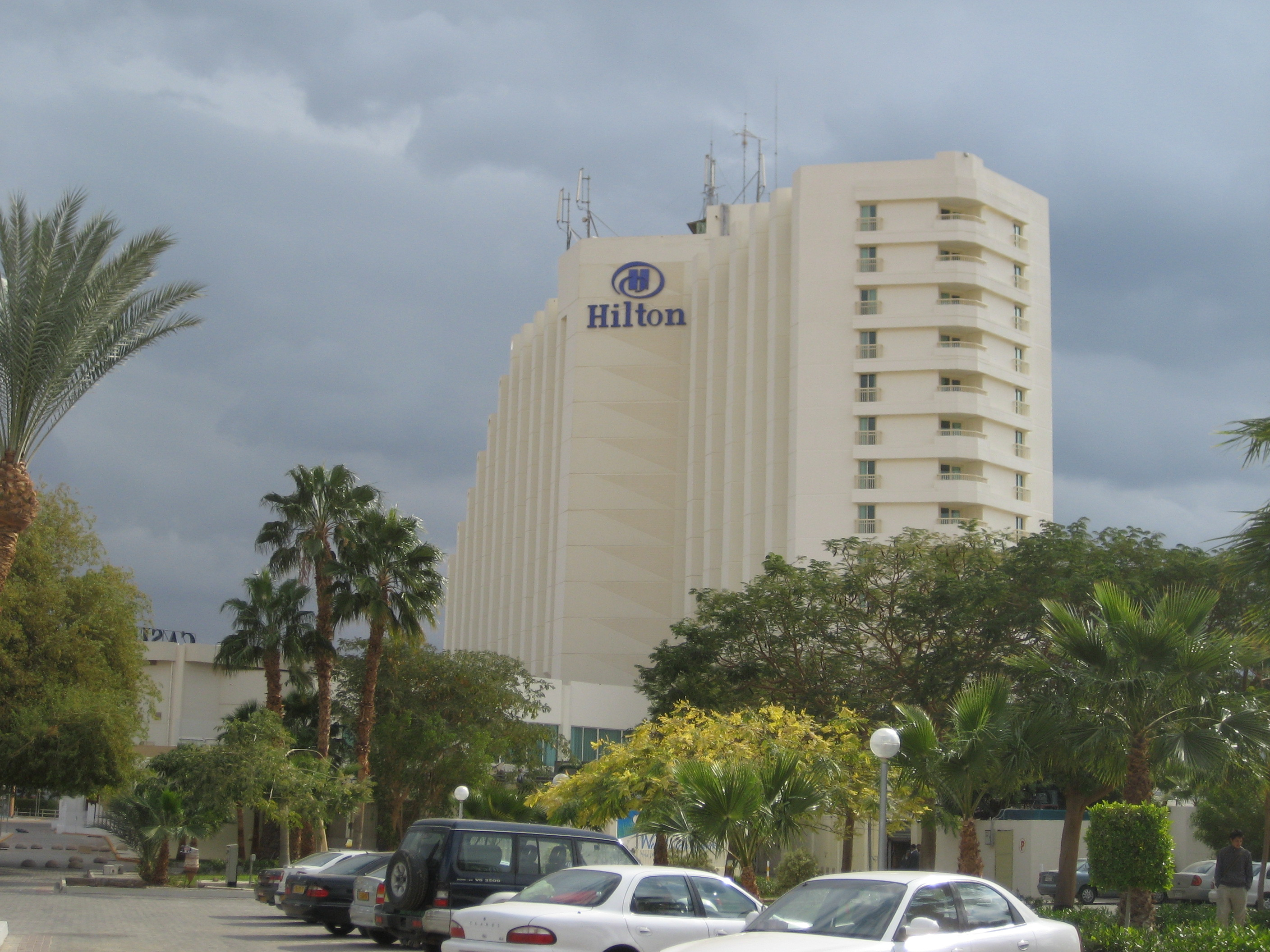 Hilton Taba, formerly the Sonesta Hotel, after renovation work due to the 2004 Sinai bombings.